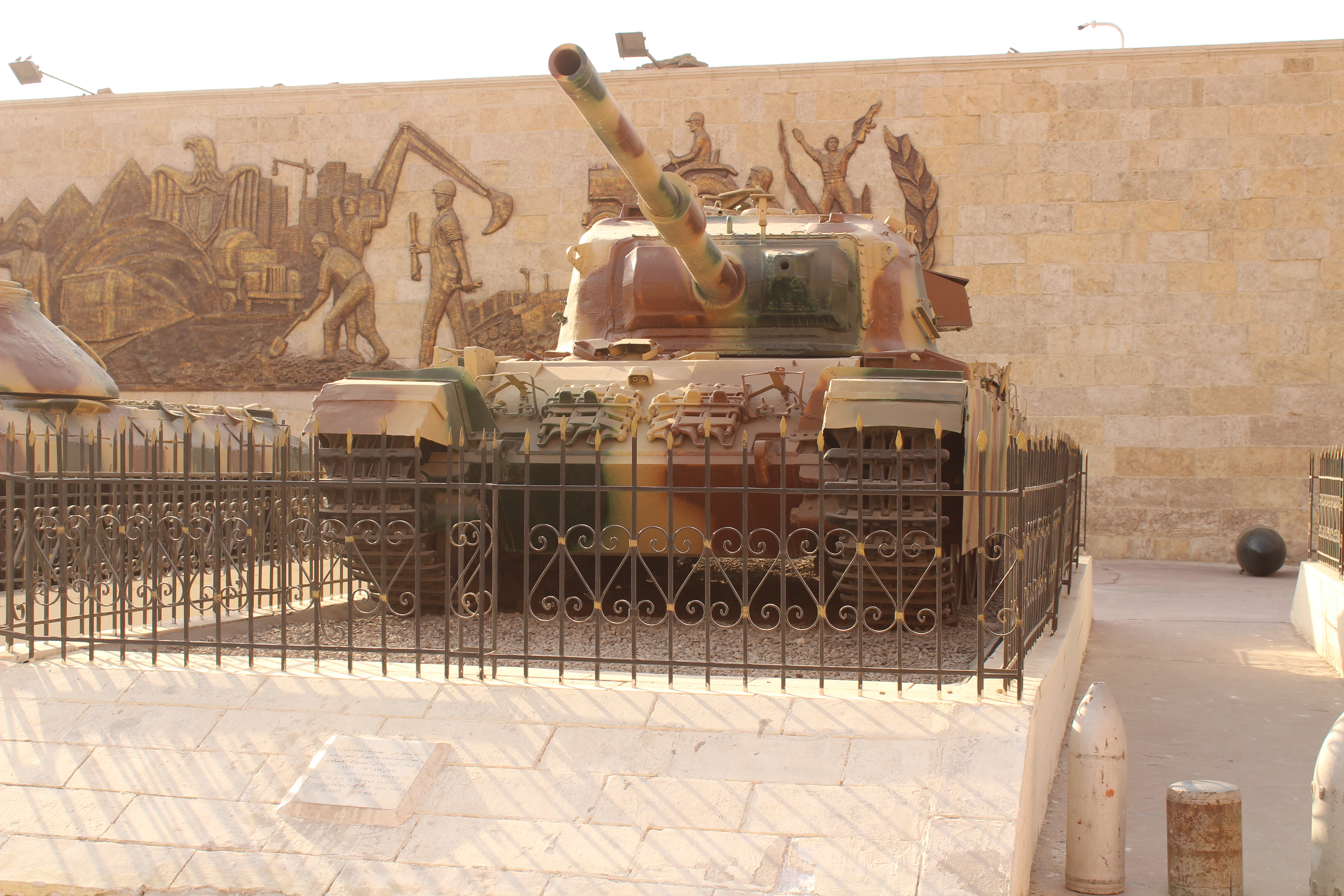 Centurion tank